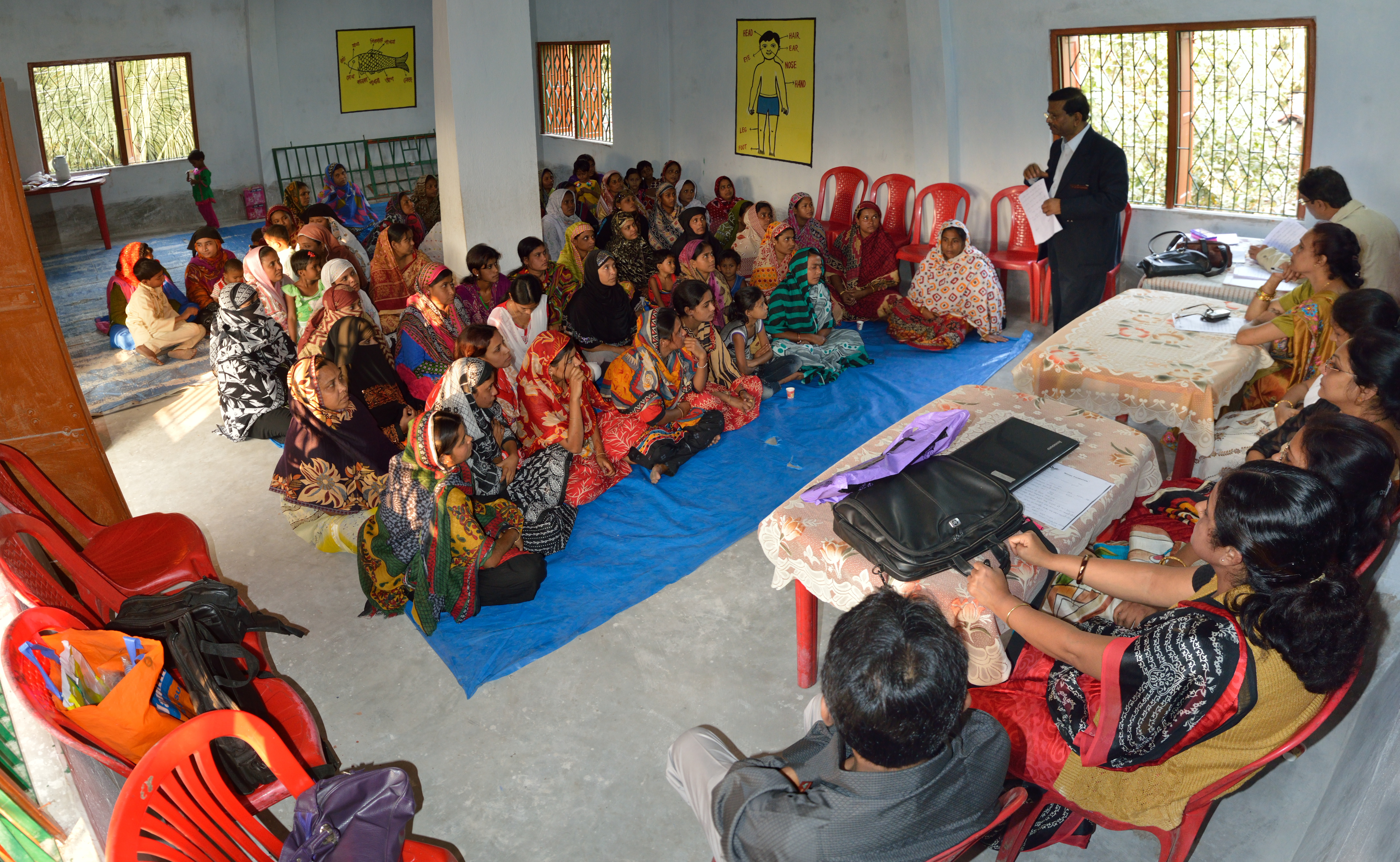 A Socio-economic survey and a Breast Cancer Awareness programme were held at the Maula Box Mallick Smriti Vidyalaya. Jagacha, Howrah on Sunday, 22 December, 2013. Forty six women age group of 18 - 50 years participated. It was organized by the Nisana Foundation, a Kolkata based NGO.